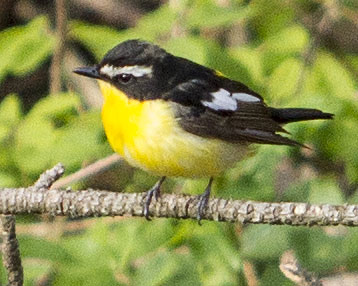 A male Yellow-rumped Flycatcher (Ficedula zanthopygia) photographed by Devon Pike on Eocheong Island, Korea May 2012.